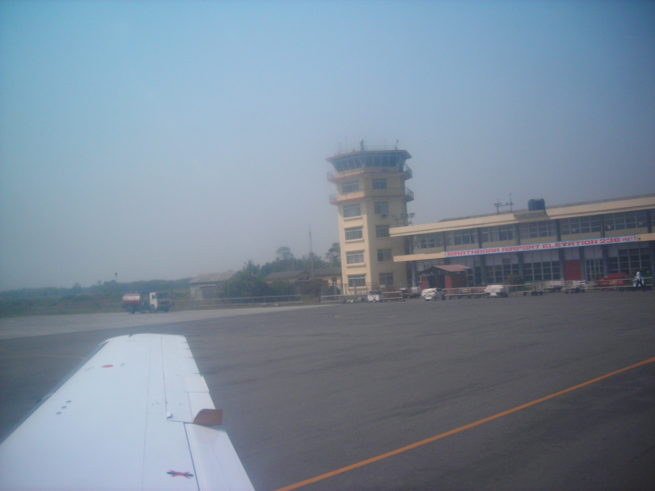 Biratnagar Airport Terminal